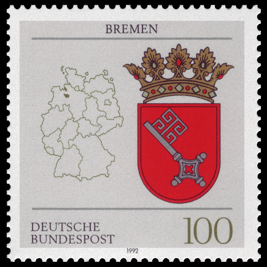 Coats of arms of the 16 states of Germany Ausgabepreis: 100 Pfennig First Day of Issue / Erstausgabetag: 13. August 1992 Michel-Katalog-Nr: 1590 Designer: Jünger